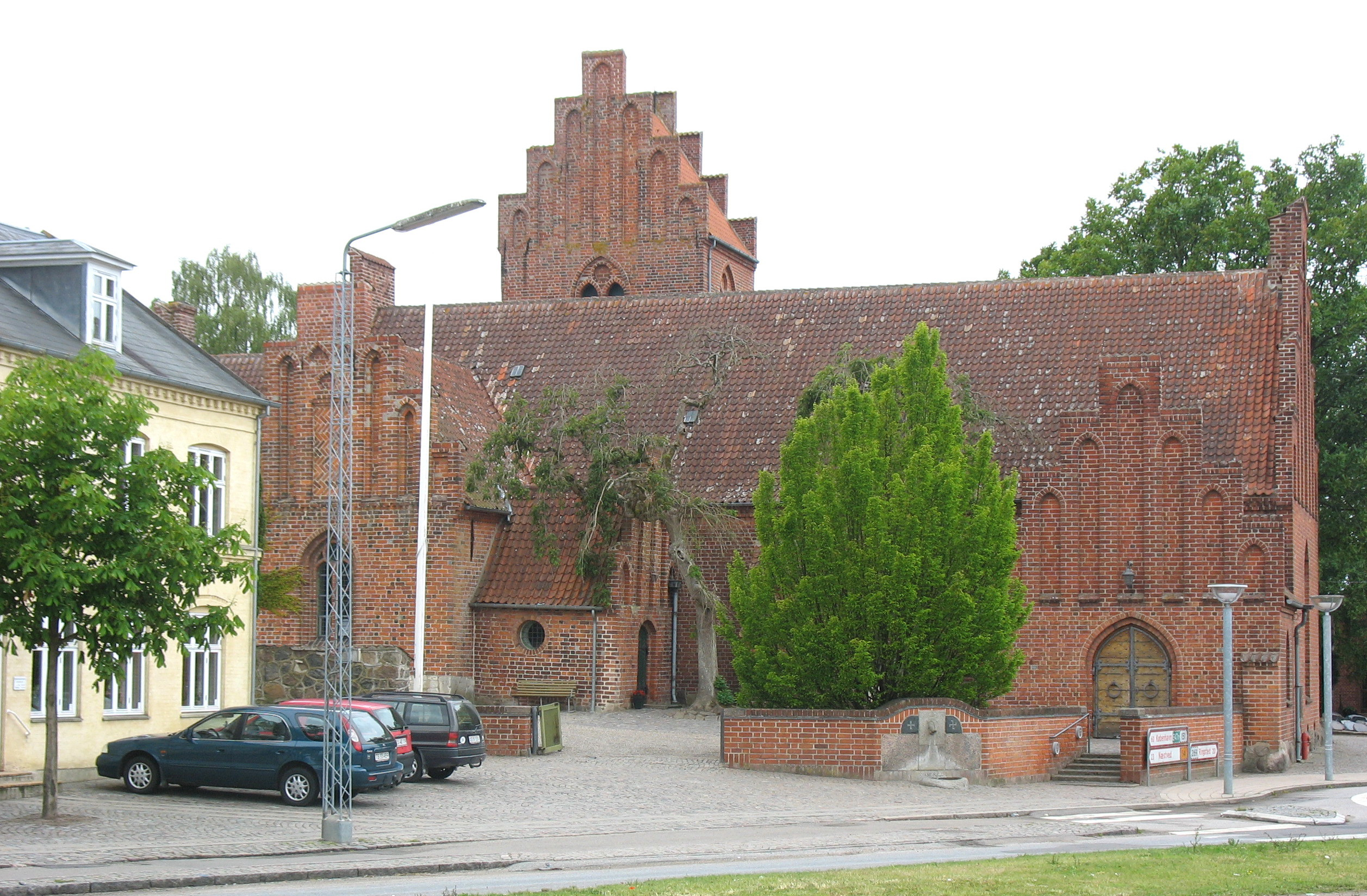 Nearby the church "Haslev Kirke" in the Danish town "Haslev". It is located in South Zealand in east Denmark.